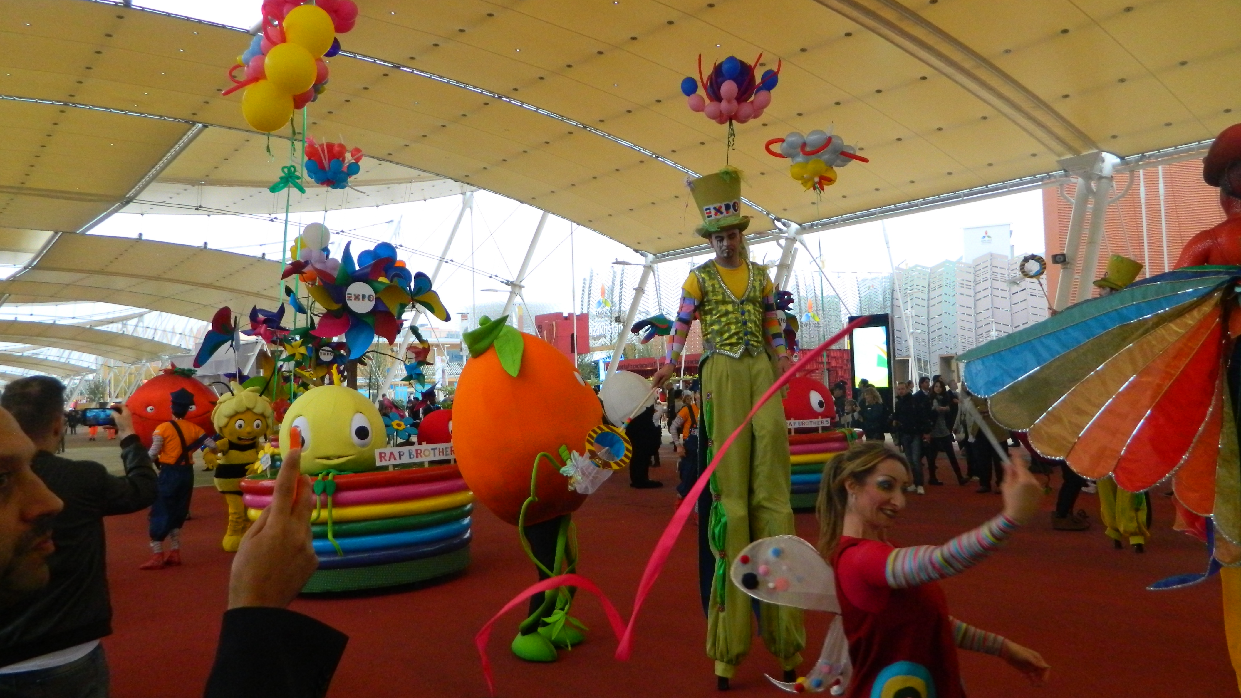 Foody and mascots parade at Expo 2015 Milano